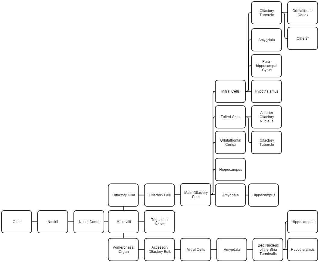 This diagram linearly (unless otherwise mentioned) tracks the projections of all known structures except Piriform Cortex (also known as Primary Olfactory cortex) that allow for olfaction to their relevant endpoints in the human brain.